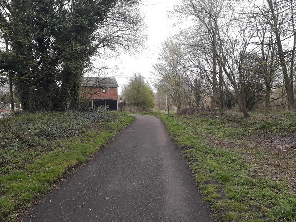 My own work.